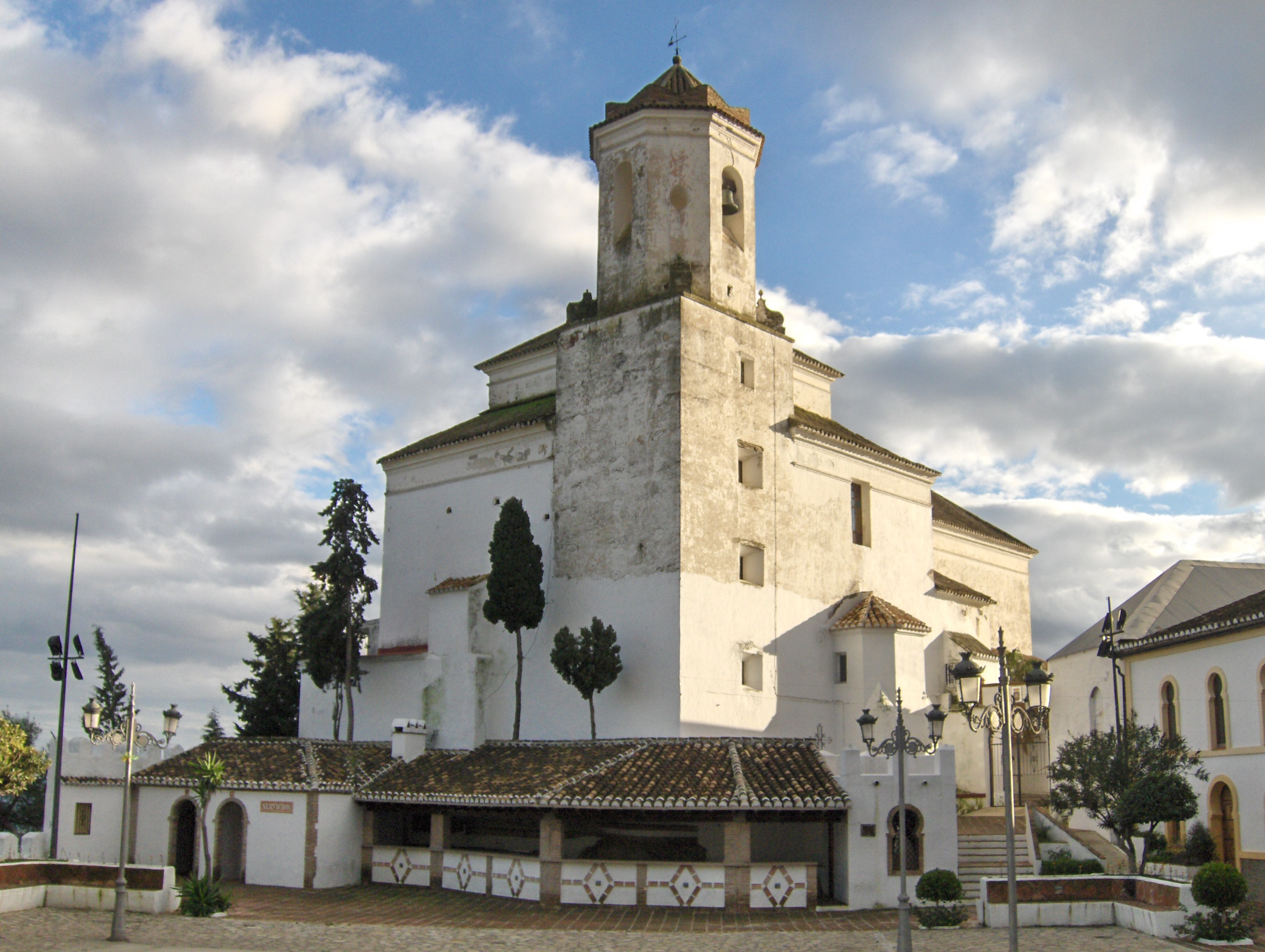 Santa Ana Church, Alozaina.